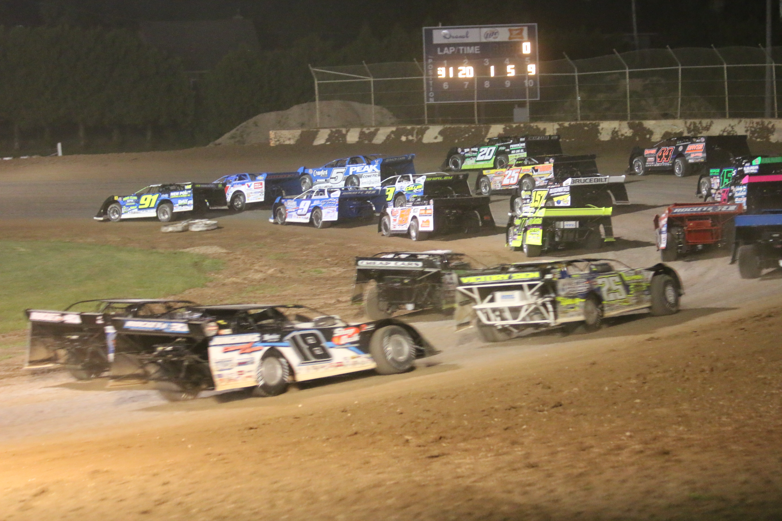 The World of Outlaws Late Model Series drivers at the Plymouth (WI) Dirt Track - Sheboygan County Fairgrounds.